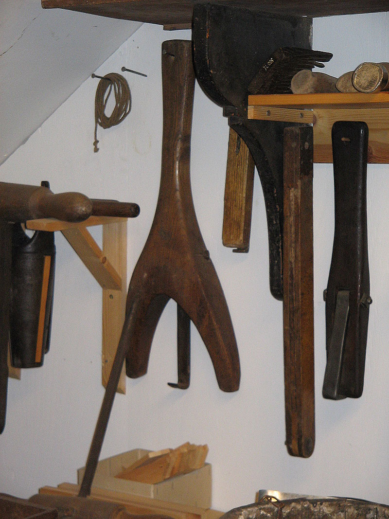 Antrækker bl.a. Photo from "Kajsergaarden", Randers. This file was made by B. M. Askholm, Please credit this: B. Askholm foto, 2006 An email to B. Mathias at baskholm(--) would be appreciated too.